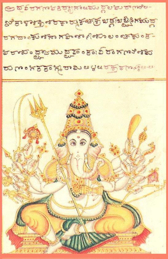 Reproduction from the Śrītattvanidhi ("The Illustrious Treasure of Realities"), an iconographic treatise compiled in the 19th century in Karnataka, India, by order of the then Maharaja of Mysore, Krishnaraja Wodeyar III (b. 1794 - d. 1868).